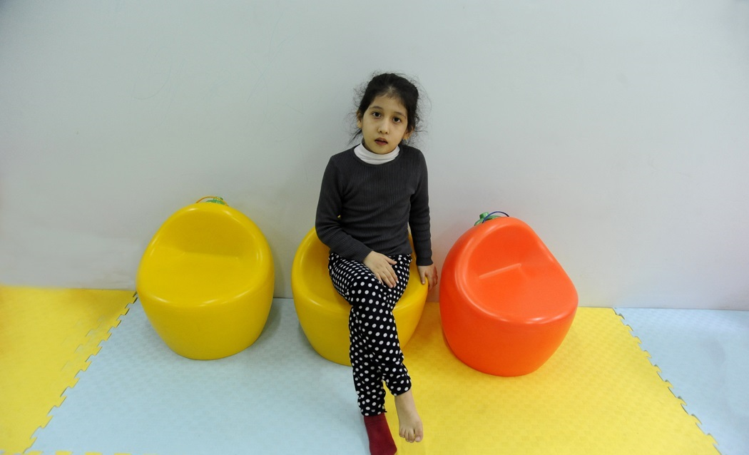 Kahrizak Charity Sanitorium -Autists children (13961208000526636553316060841443 20123) full gallery